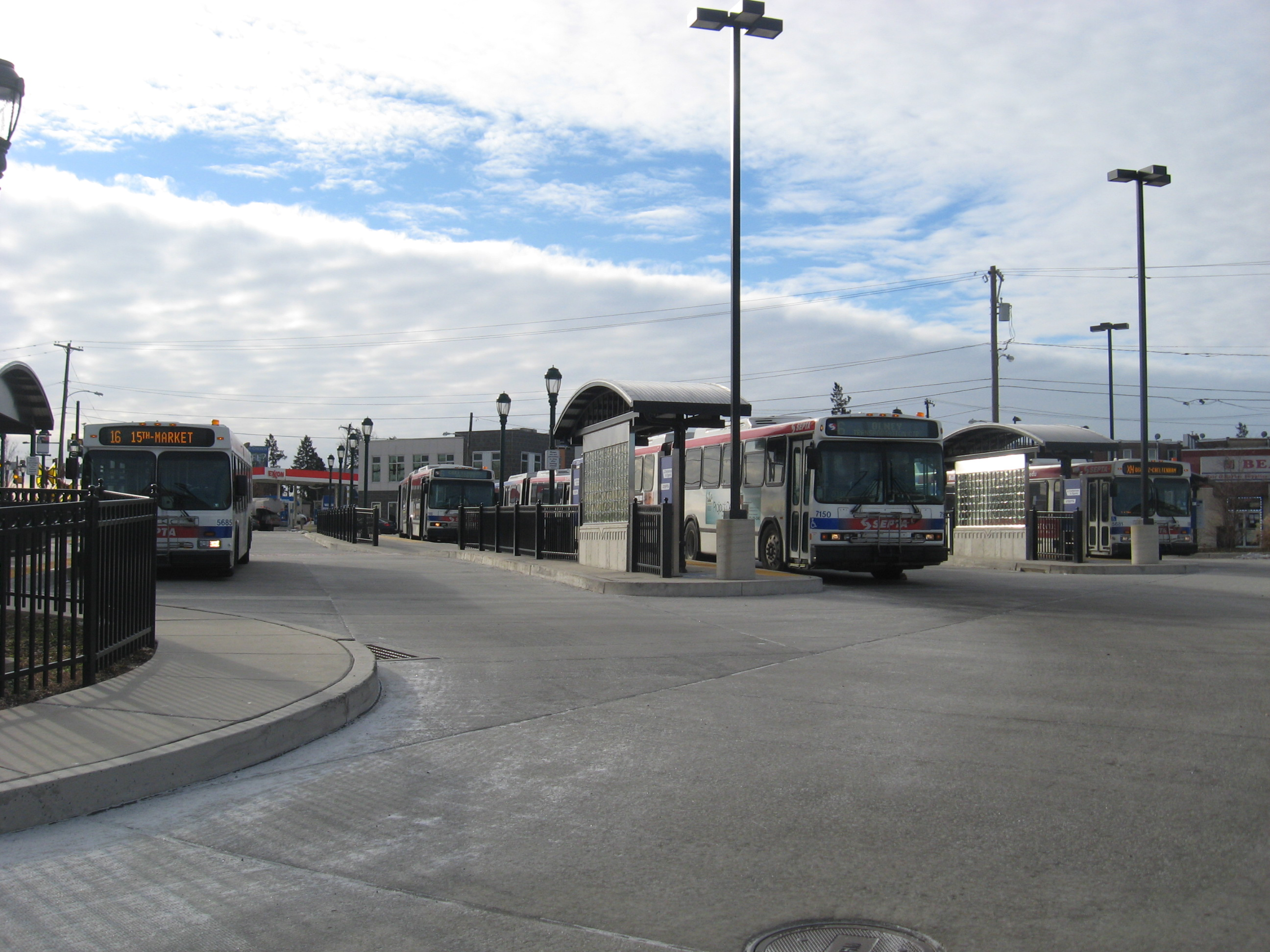 Cheltenham Township